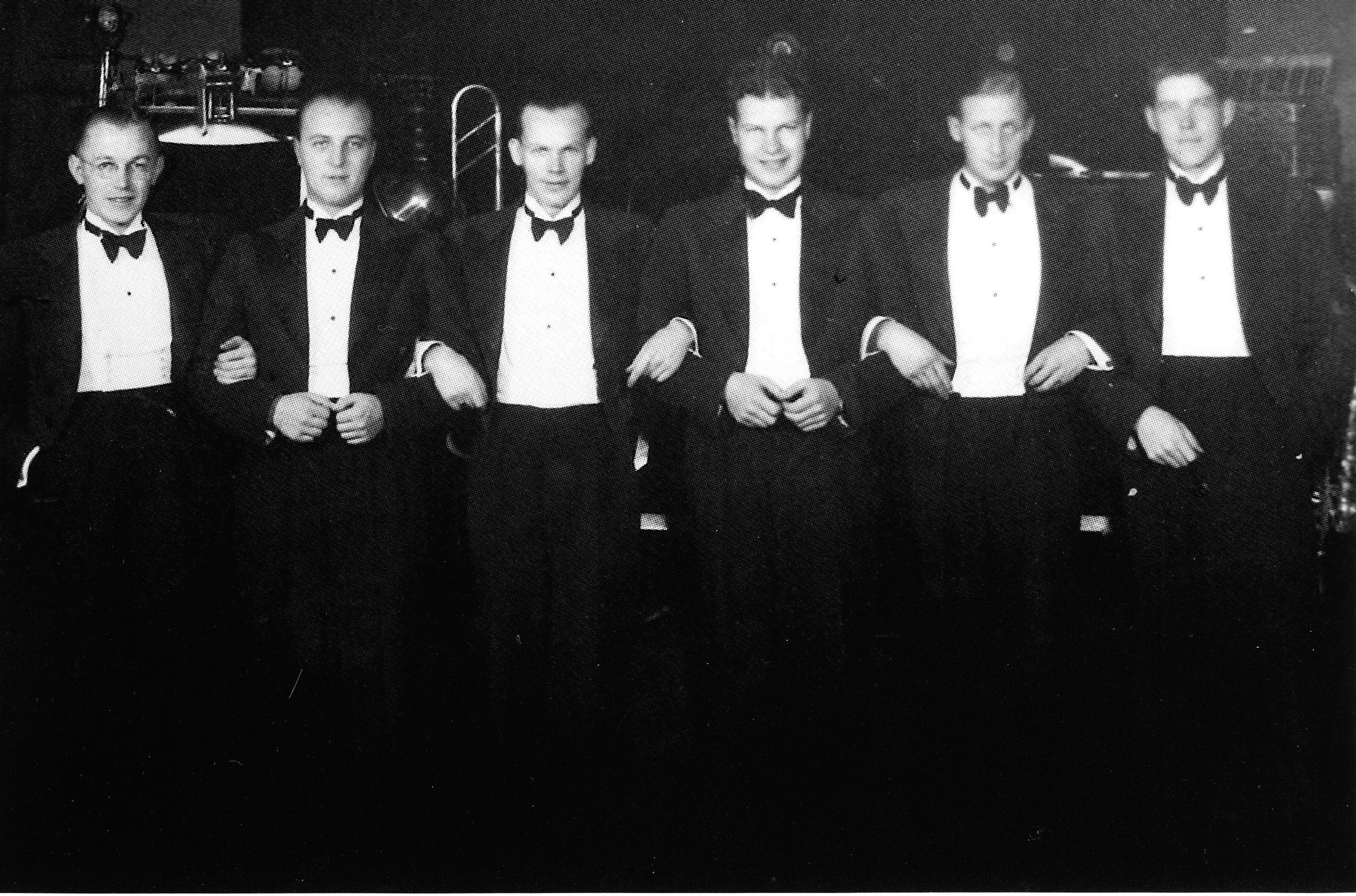 Ramblers-orchestra